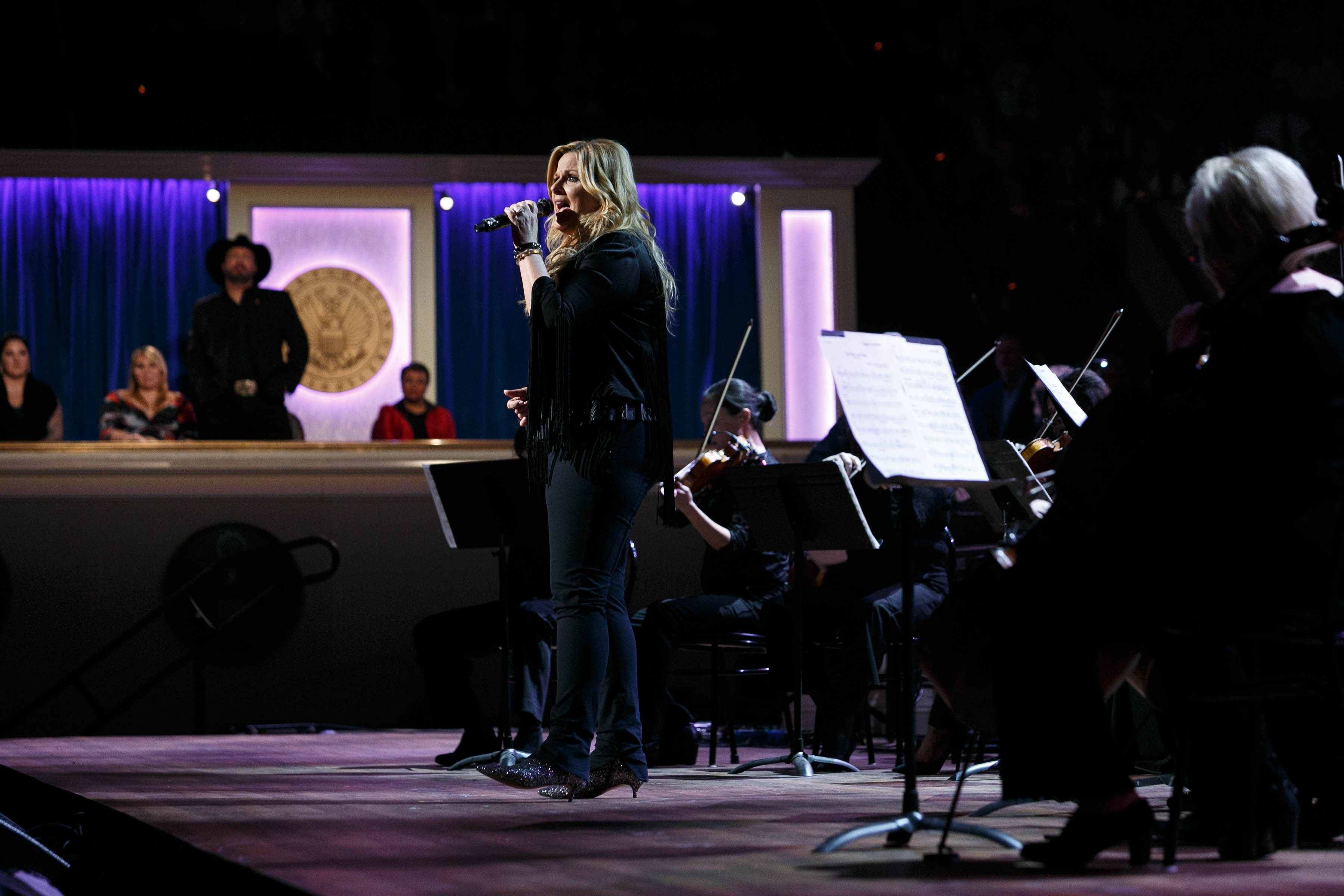 Trisha Yearwood performs at the 2020 Library of Congress Gershwin Prize for Popular Song concert honoring her husband, Garth Brooks, at DAR Constitution Hall in Washington, D.C., March 4, 2020. Photo by Shawn Miller/Library of Congress. Note: Privacy and publicity rights for individuals depicted may apply.